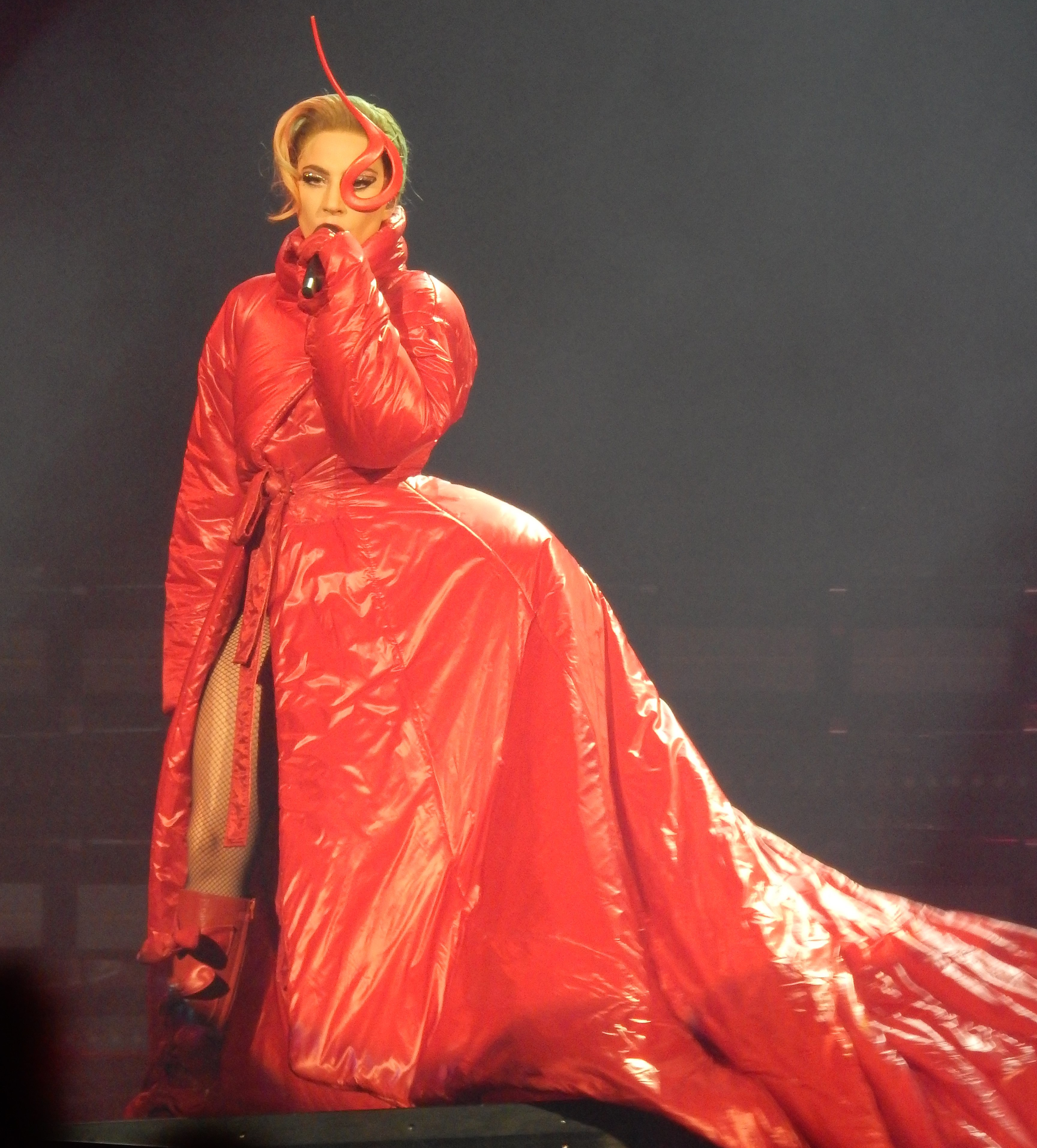 Lady Gaga performing at Arena Birmingham for the Joanne World Tour, January 31st 2018